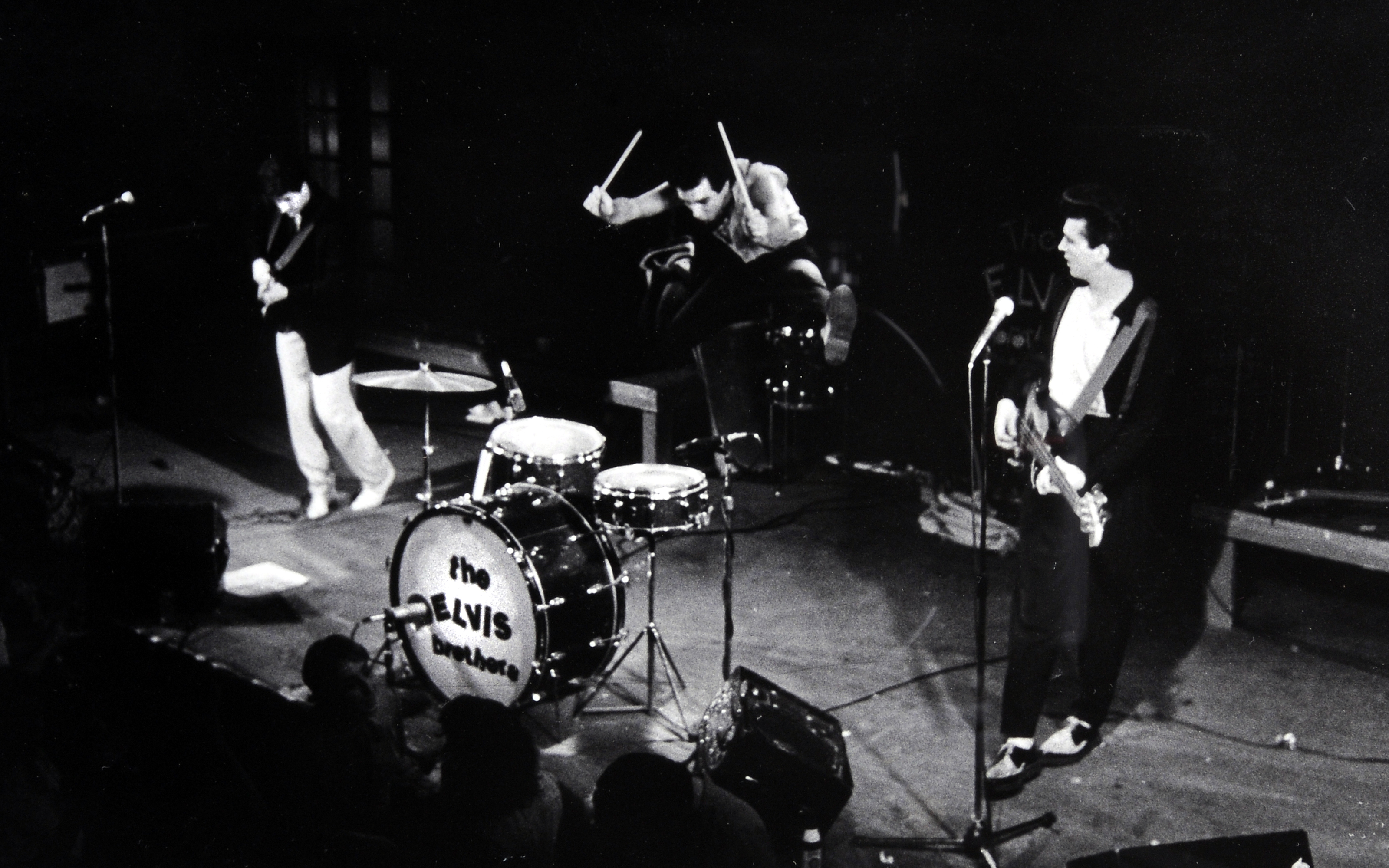 The Elvis Brothers performing at Mabel's in Champaign, IL